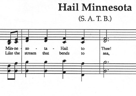 The upper lefthand corner of the sheet music to Minnesota's state song, "Hail Minnesota".